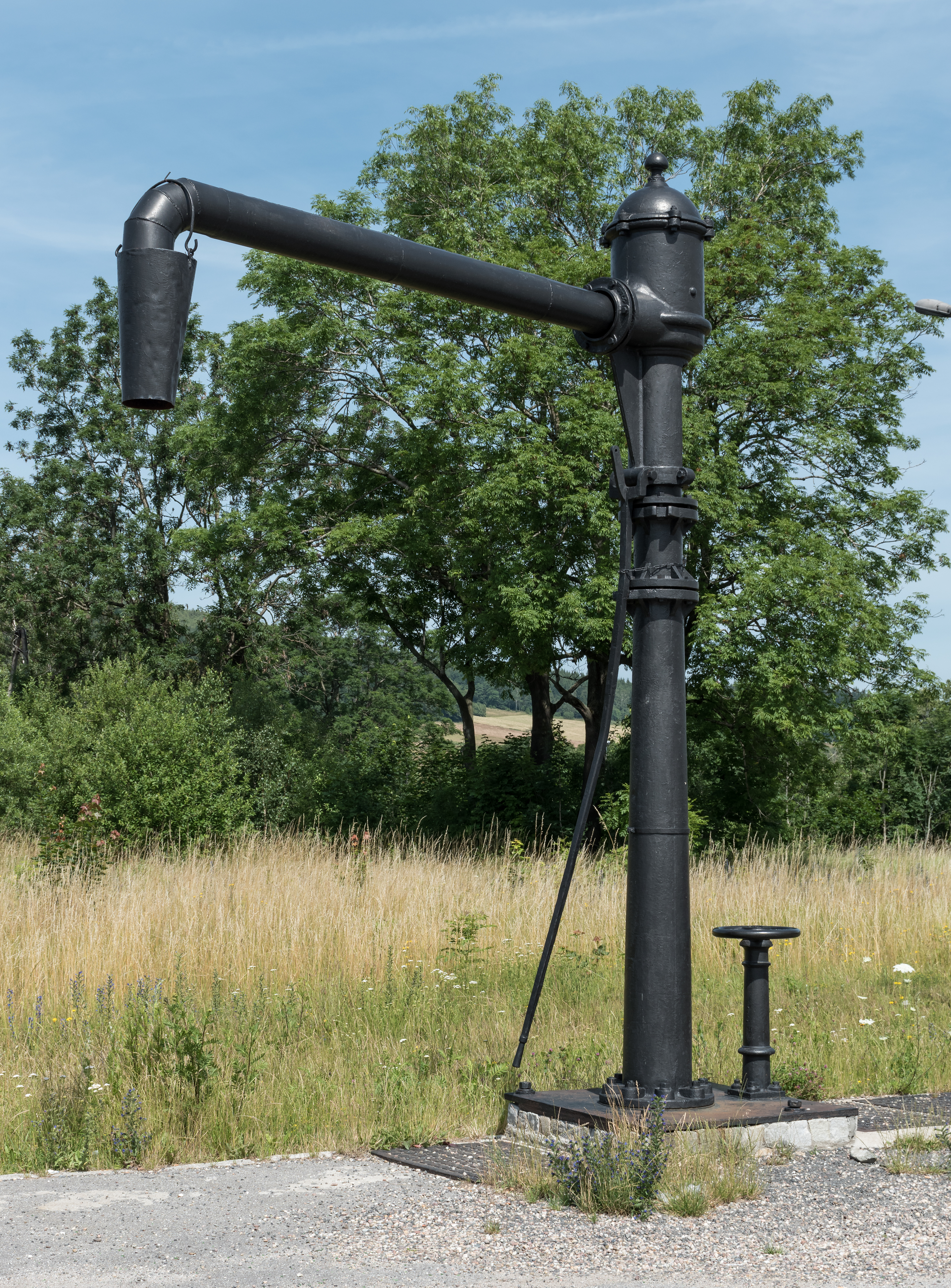 Water crane in Stronie Śląskie